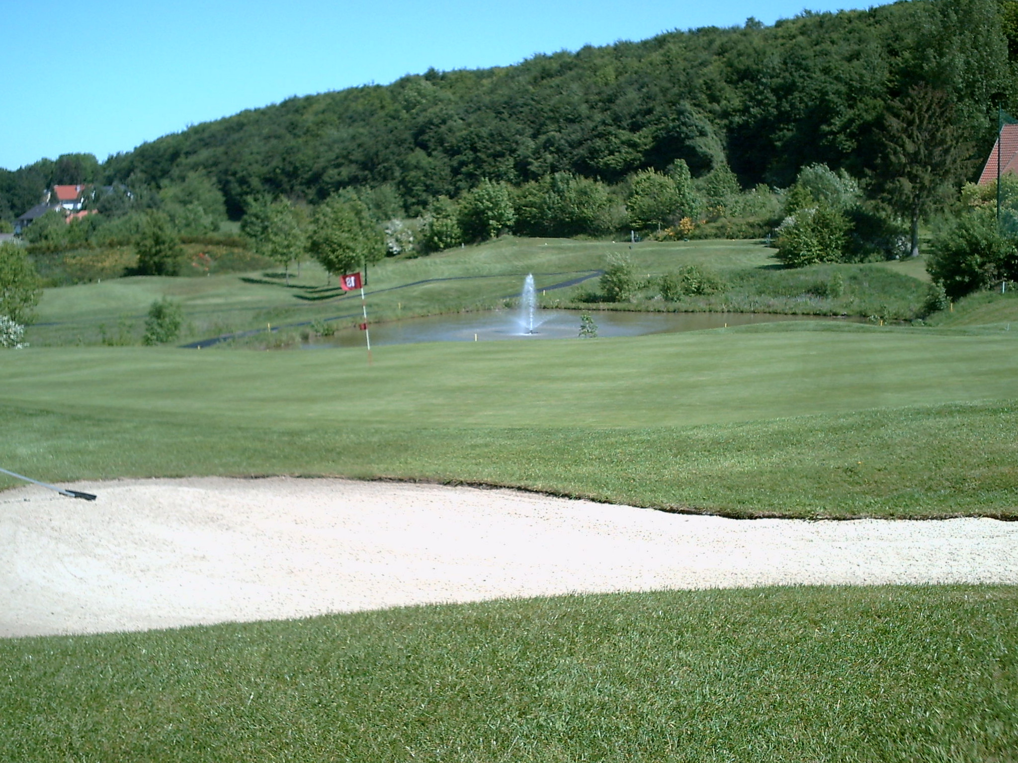 Golf course Teutoburger Wald in Halle (Westf.), hole 18